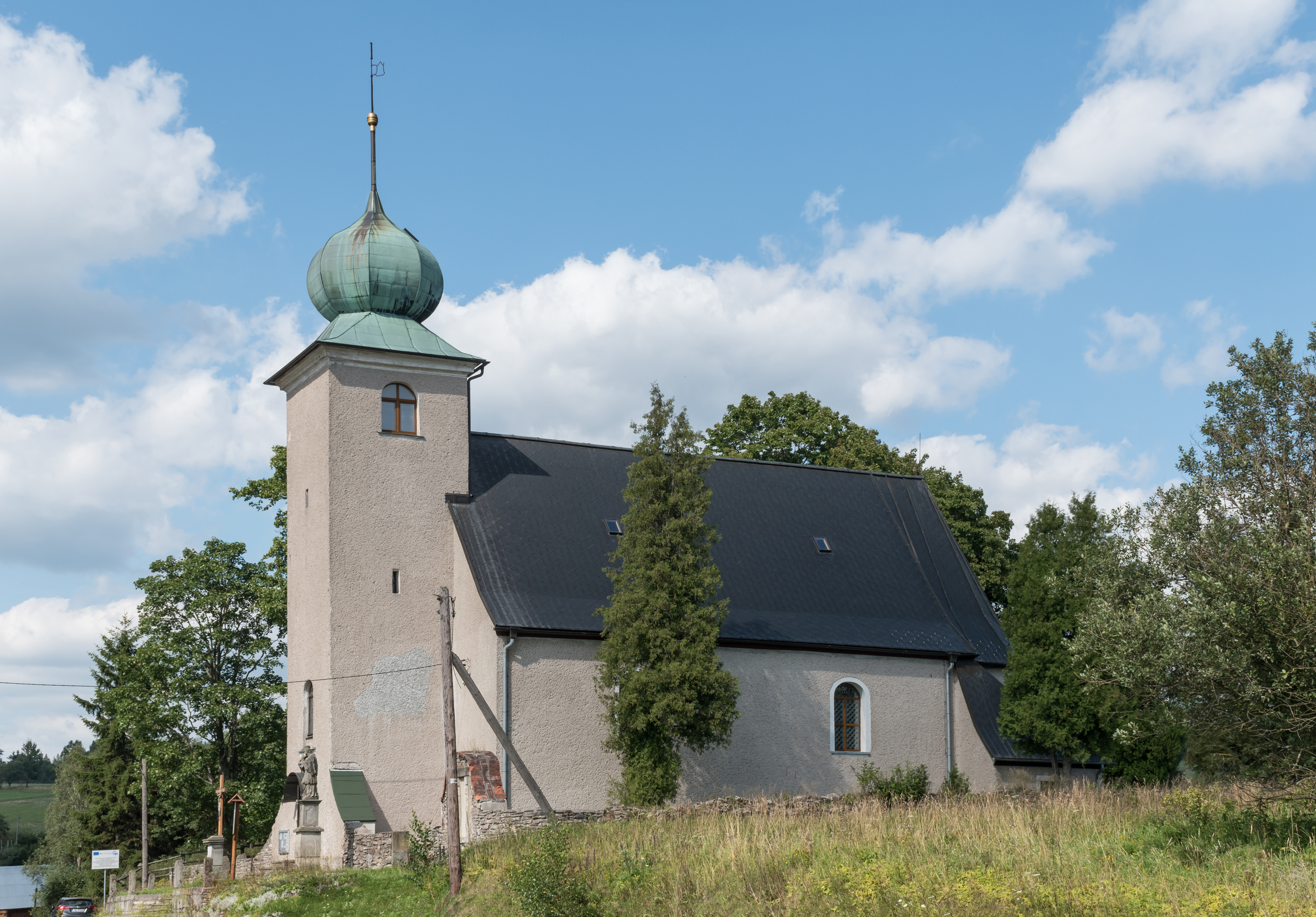 Church of Nativity of the Virgin Mary in Mostowice Wikidata has entry Q30046624 with data related to this item.